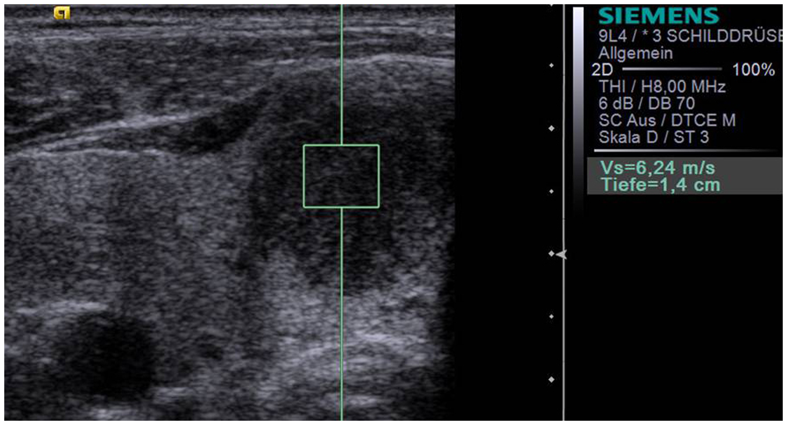 Acoustic Radiation Force Impulse Imaging (S2000, 9L4 probe at 9 MHz) of a patient with the ROI placed within a hypoechoic thyroid nodule in the right thyroid lobe measuring a velocity of 6.24 m/s. Histology revealed papillary carcinoma.